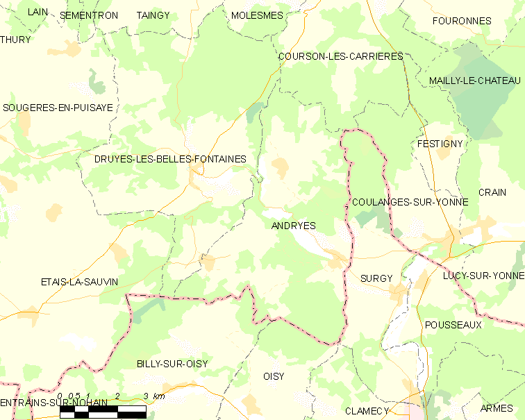 Map of French municipality Andryes